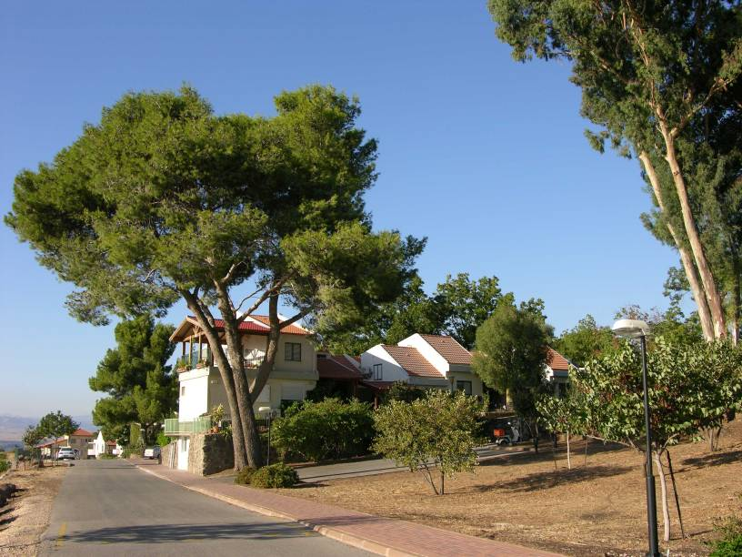 Apartments at Kibbutz Shamir, Israel